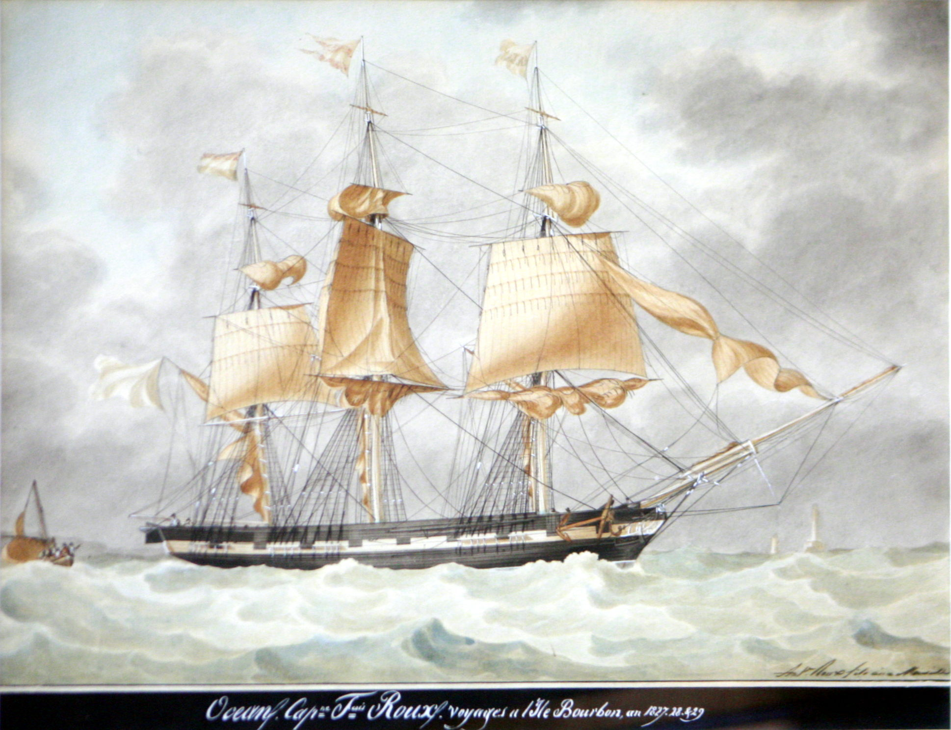 Sail ship Océan, bound for La Réunion